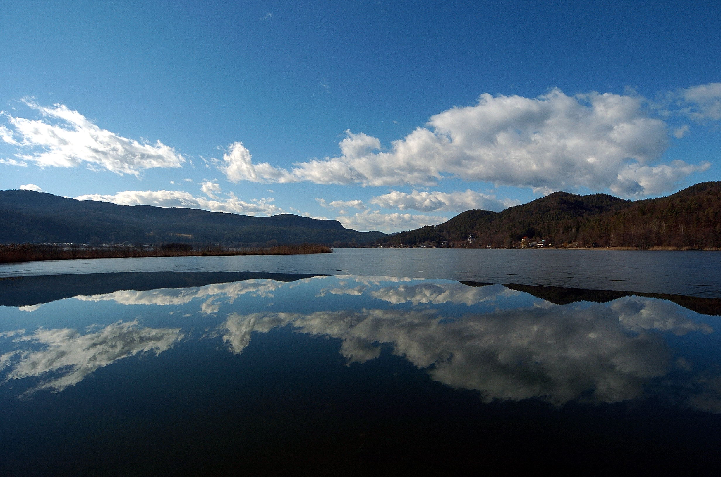 Foehn mood upon the Lake Keutschach in the community Keutschach, district Klagenfurt-Land, Carinthia, Austria